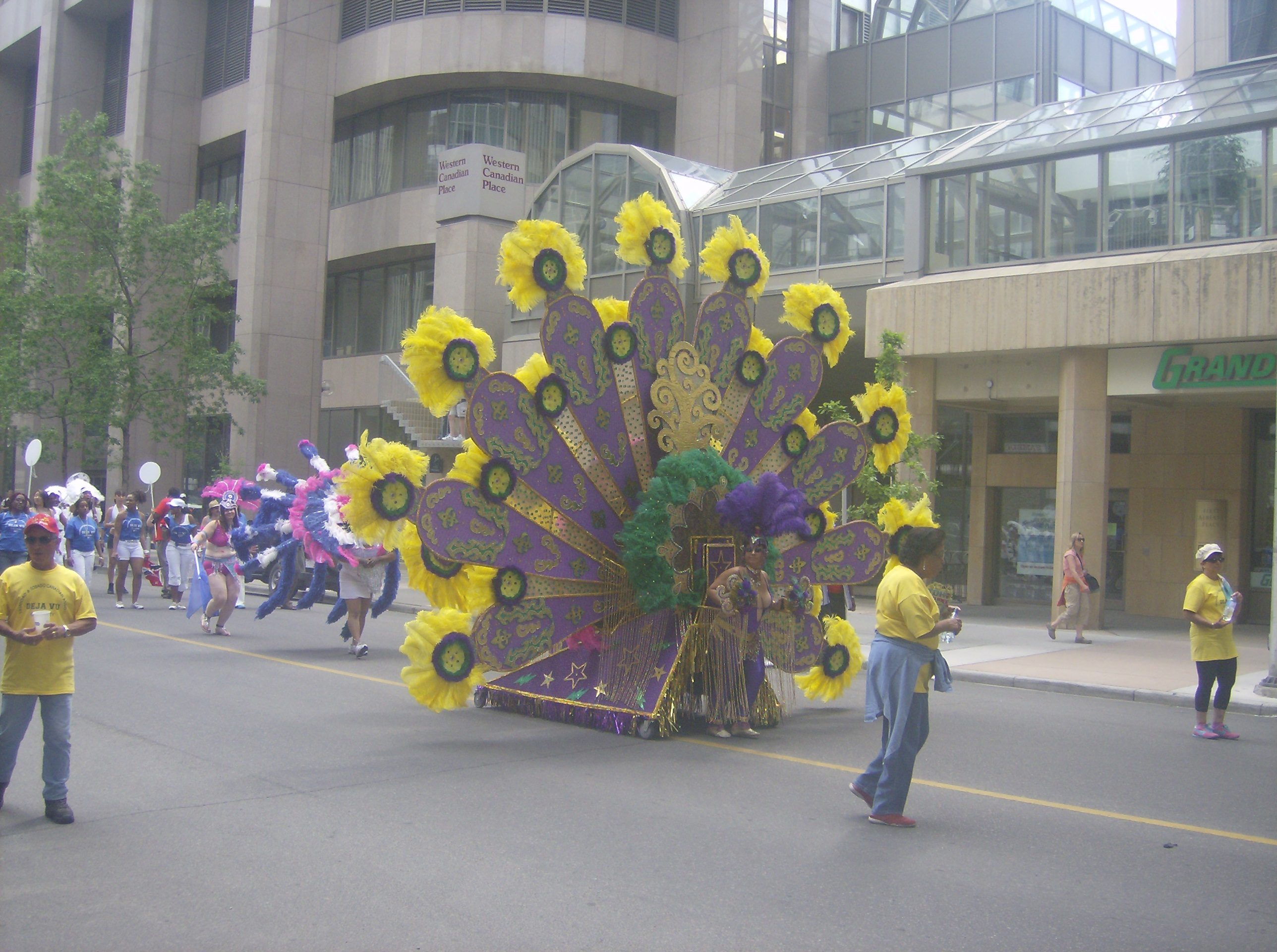 Taken at the Carifest openining day parade in downtown Calgary, Alberta, Canada on June 9, 2007.